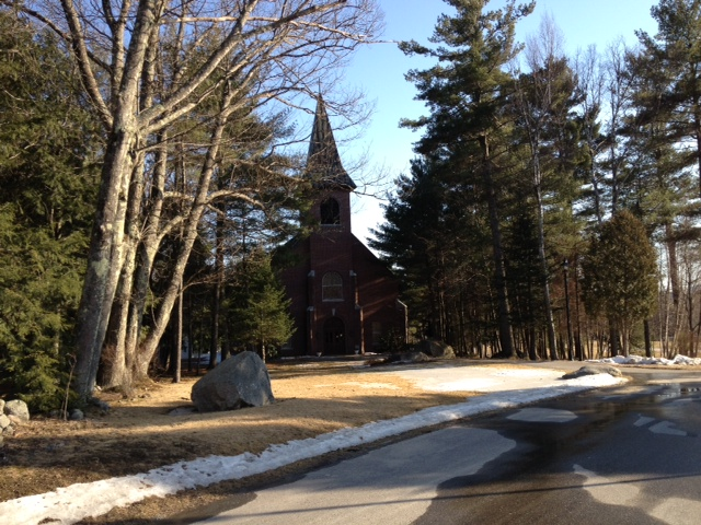 Chapel of Our Lady, Queen of Apostles at the College of Saint Mary Magdalen in Warner, NH, USA